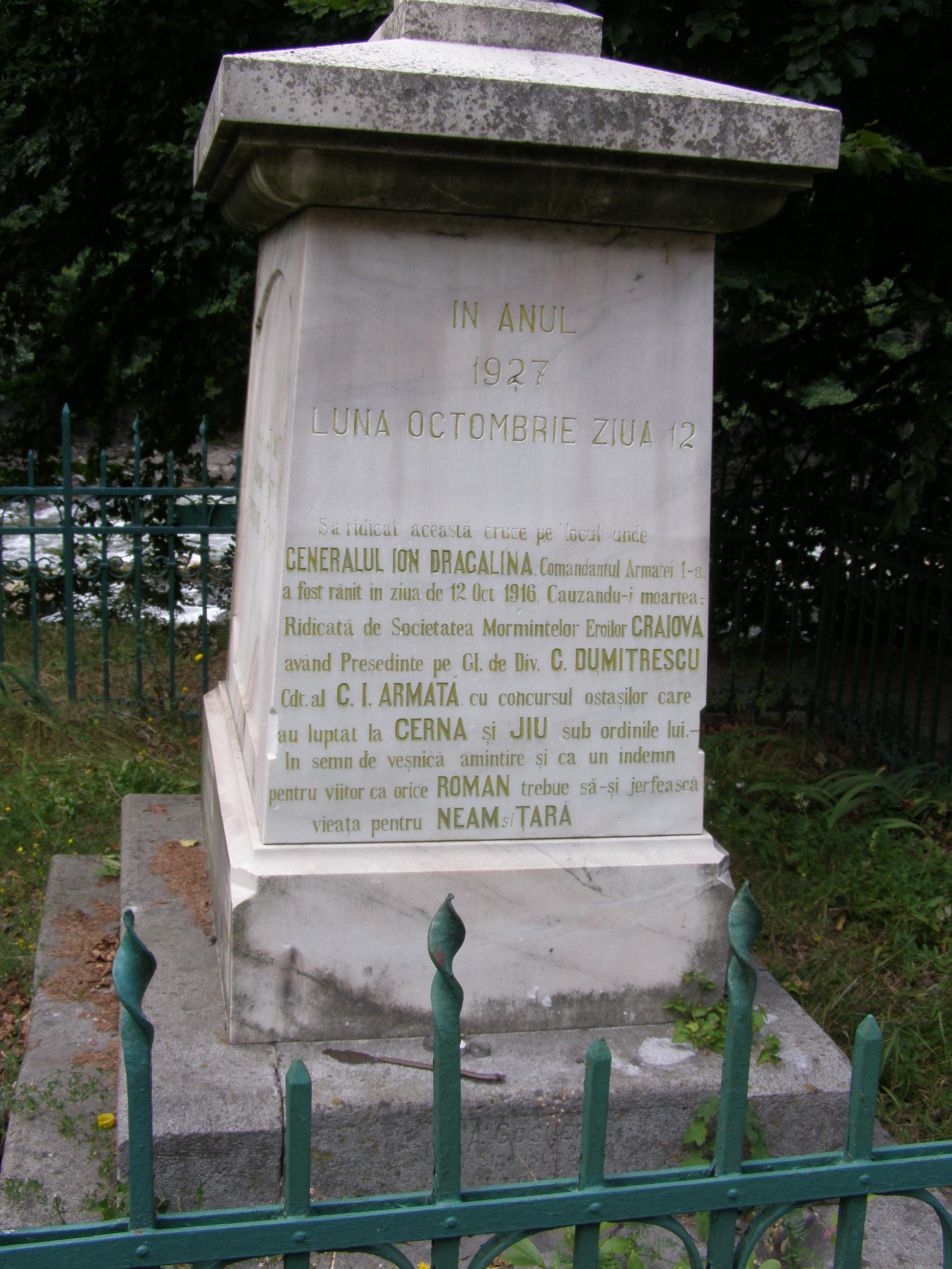 Monument of Ion Dragalina, Romanian general